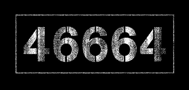 Logo 46664 (number used by Nelson Mandela).